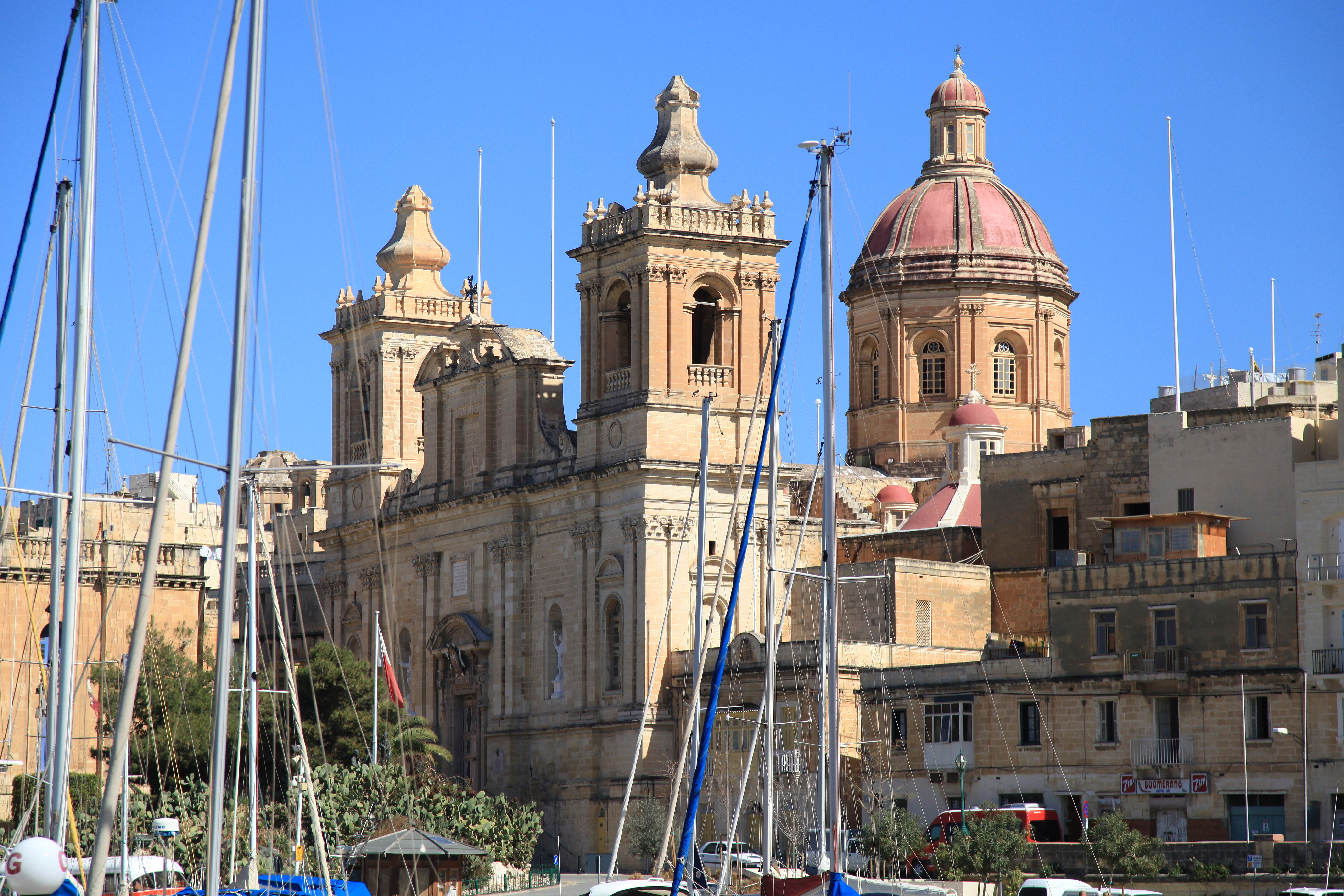 View from a Malta sightseeing two harbours cruise boat to Cottonera Marina at Ix-Xatt tal-Birgu in Birgu, Malta